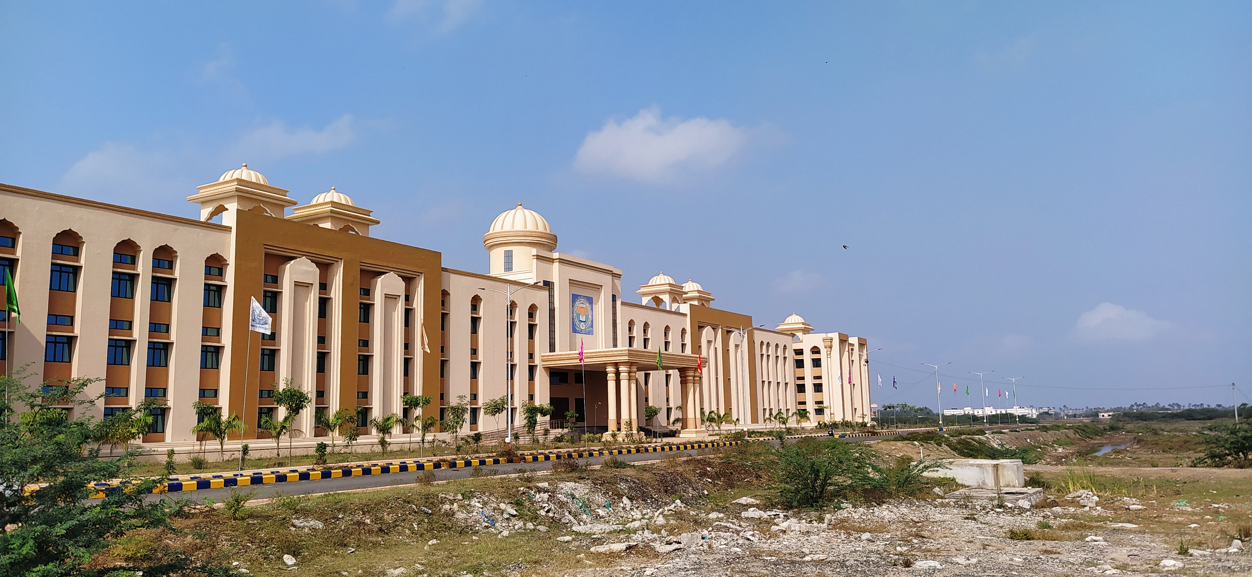 In this block post graduation, b.sc etc couses are conducted.